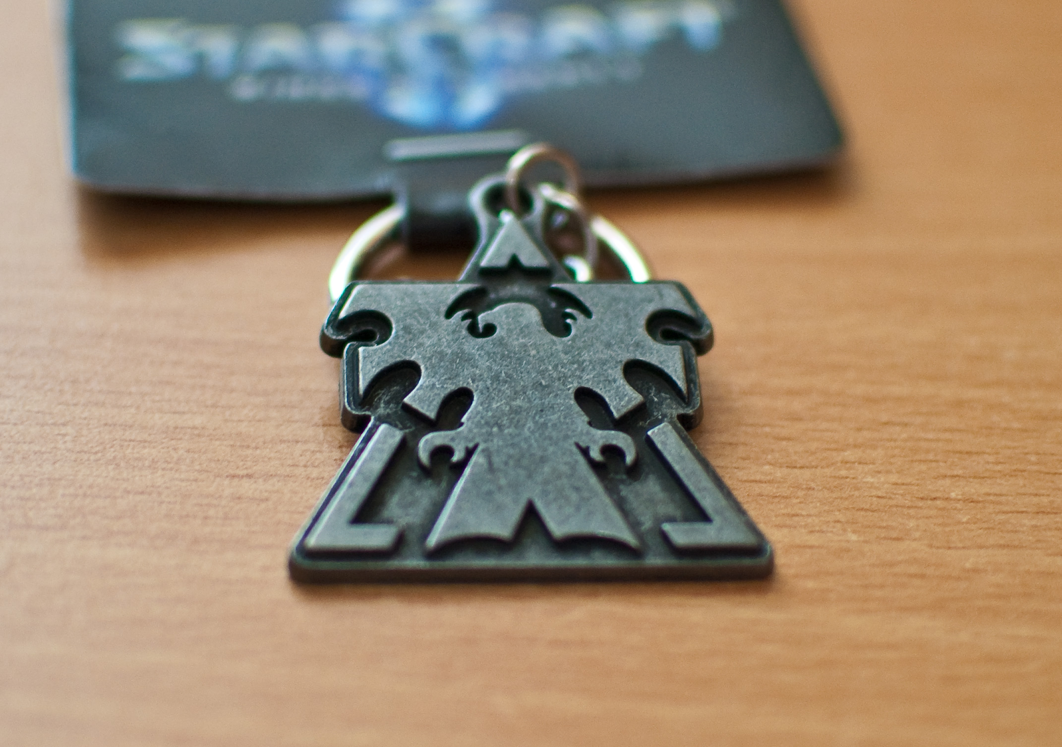 Starcraft II Terran keychain